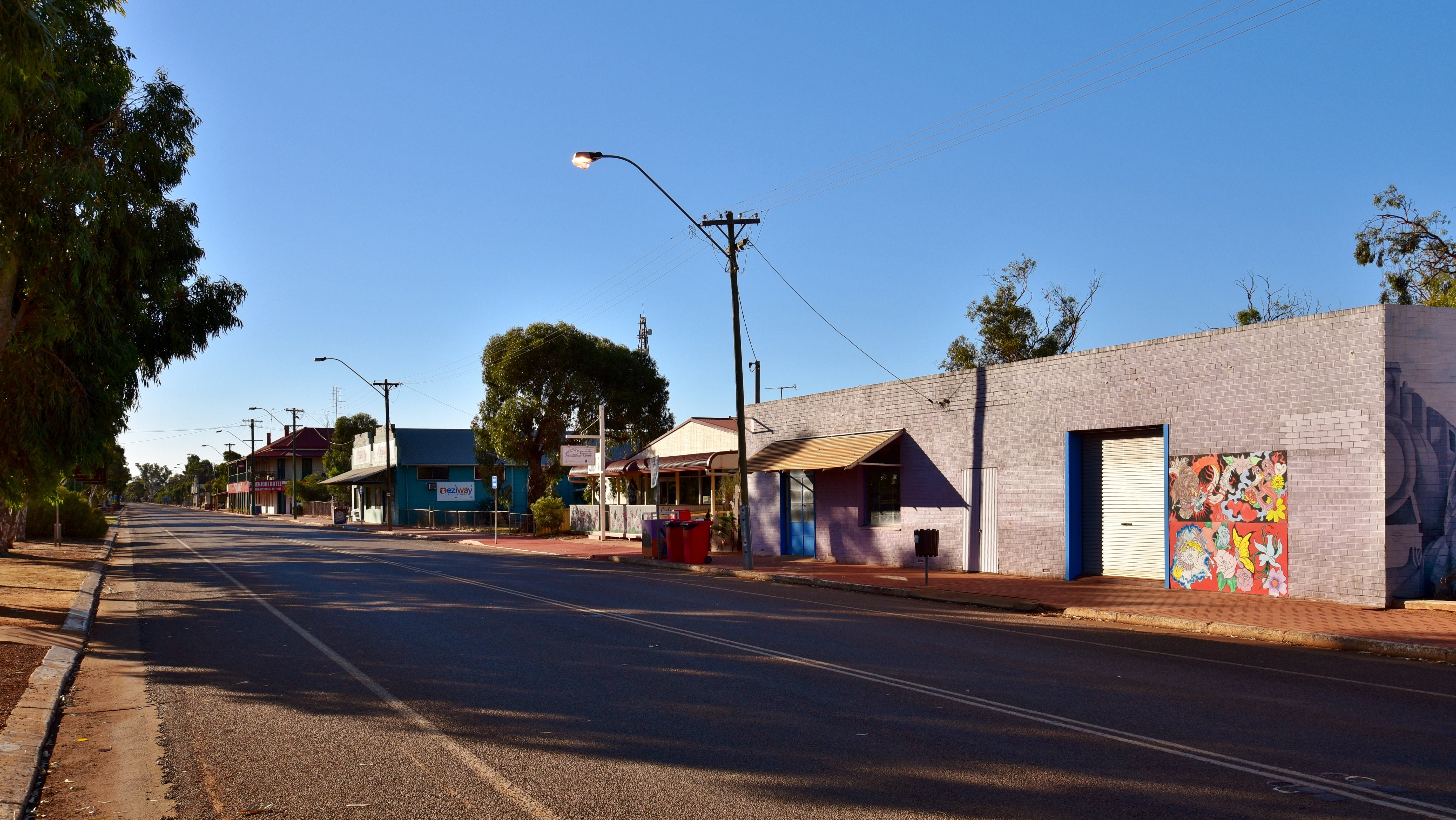 View of Fowler Street, Perenjori, Western Australia